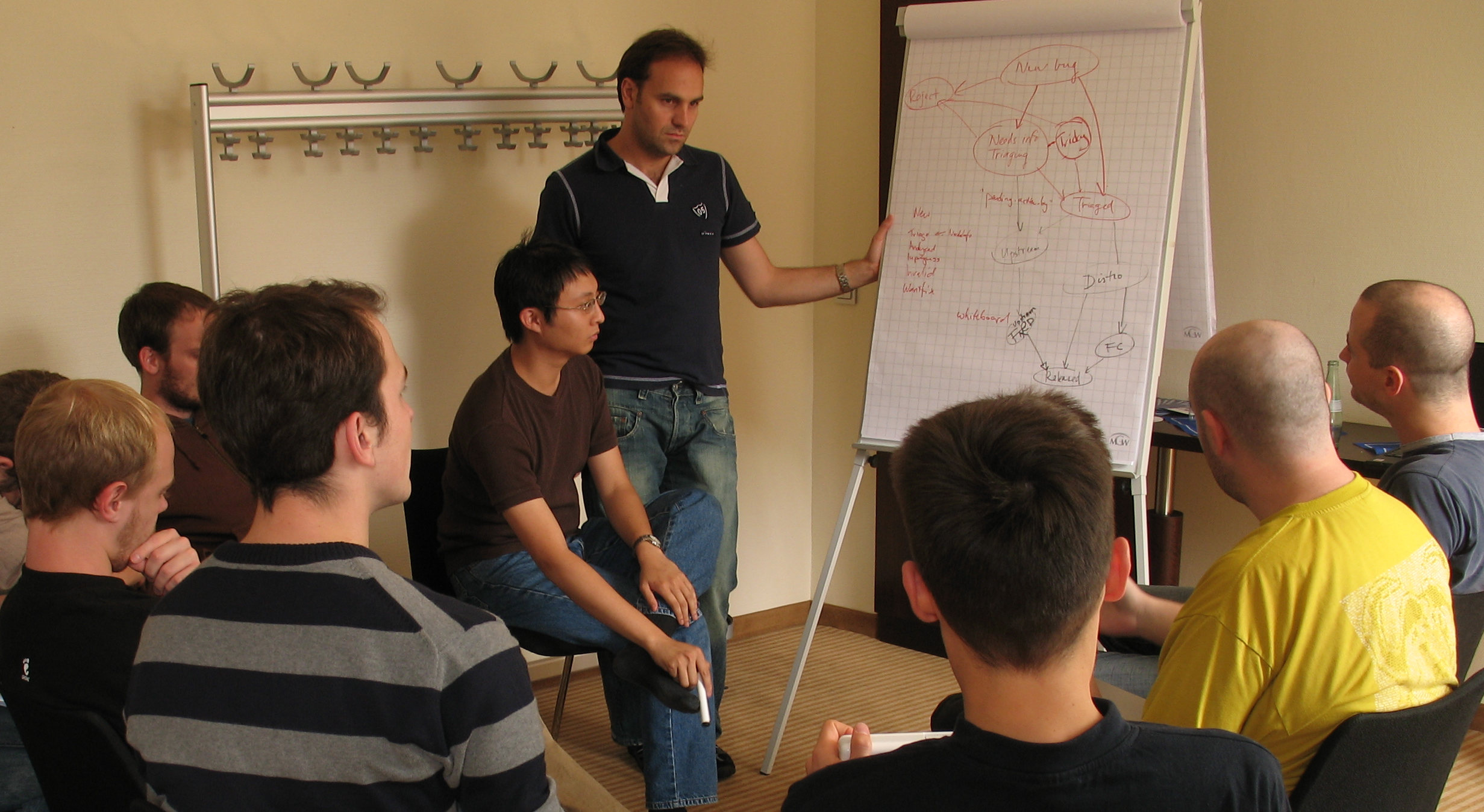 Mark Shuttleworth and Canonical Ltd. employees working together on Launchpad designs, in Wiesbaden (Germany) during the Ubuntu Developer Sprint in August 2006.